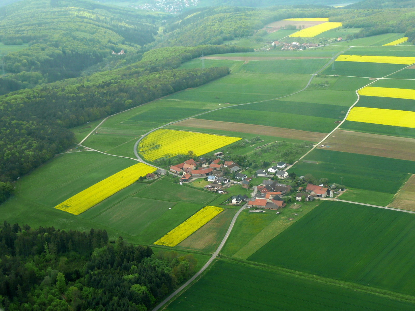 Aerial view of Karlstadt-Erlenbach, Germany. Background Rettersbach, also Mariabuchen and Sackenbach